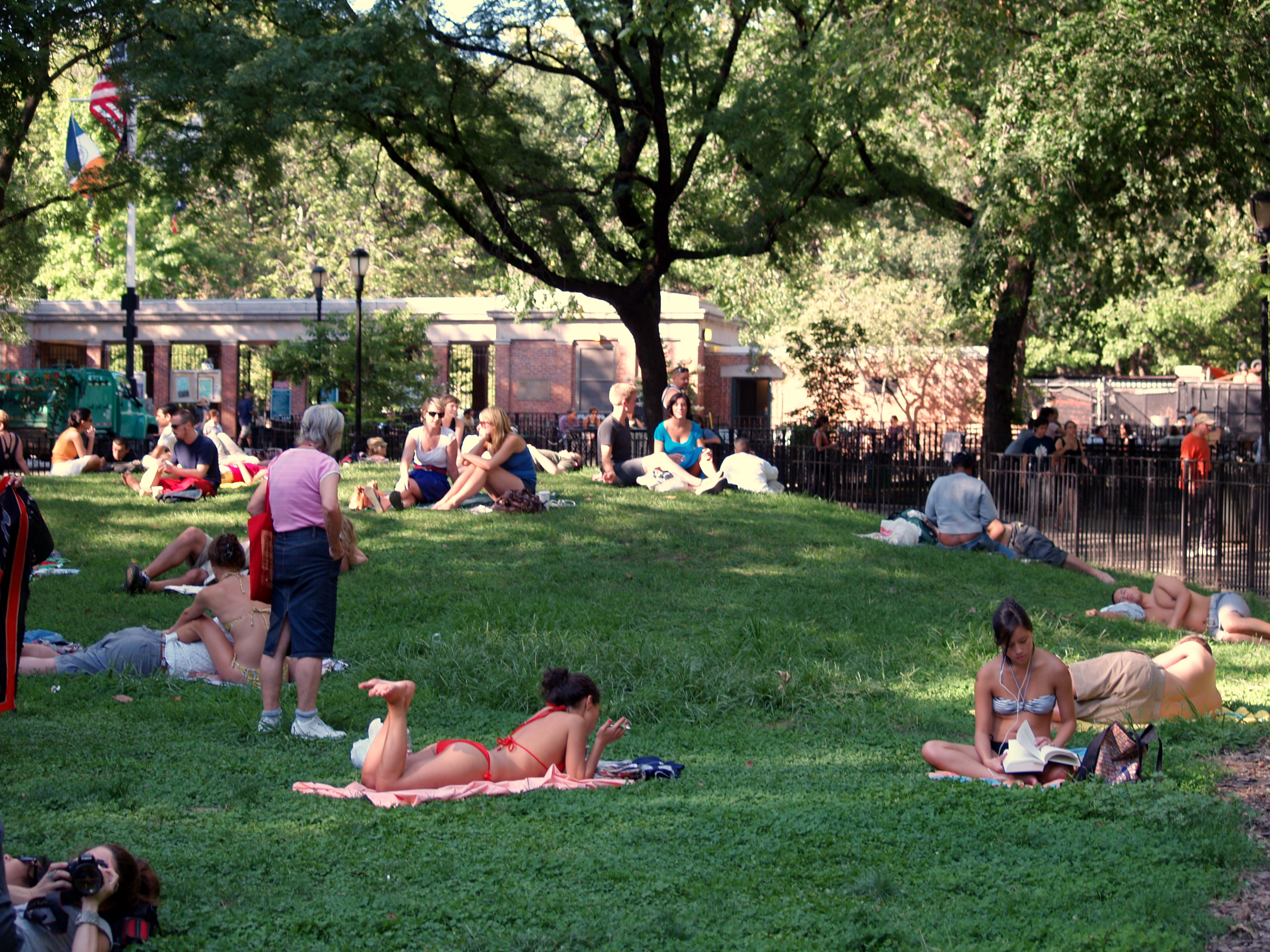 The central knoll at Tompkins Square Park in New York City where people sunbathe and relax.